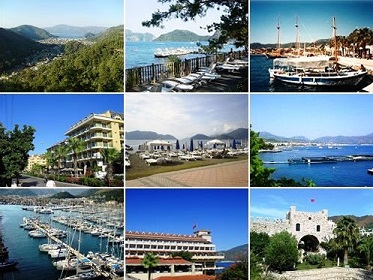 Collage of Marmaris, Muğla province, Turkey.